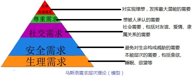 中文（中国大陆）: 马斯洛需求层次理论，Maslow's Hierarchy of Needs，由黄林锦制作。